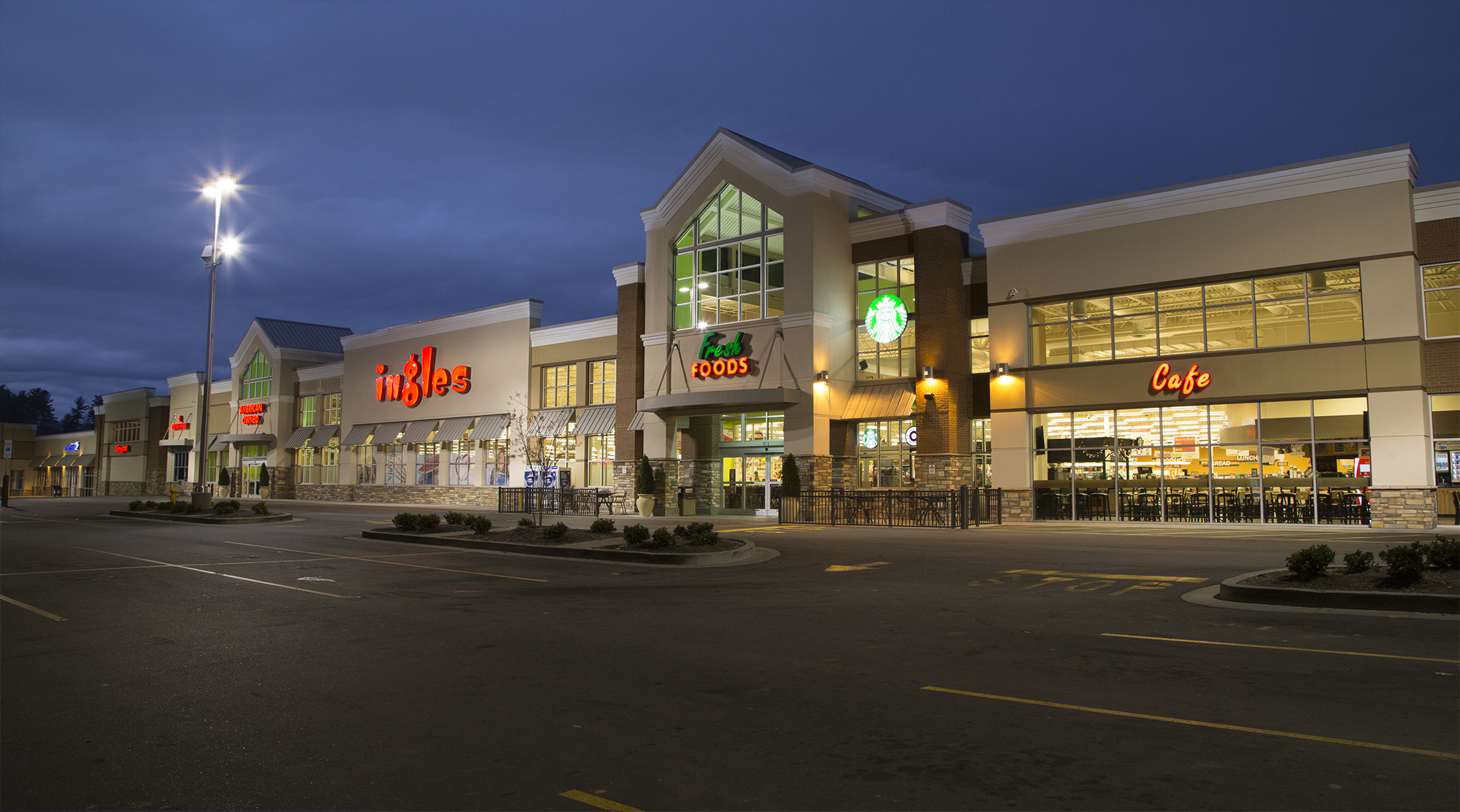 Ingles in Black Mountain, North Carolina